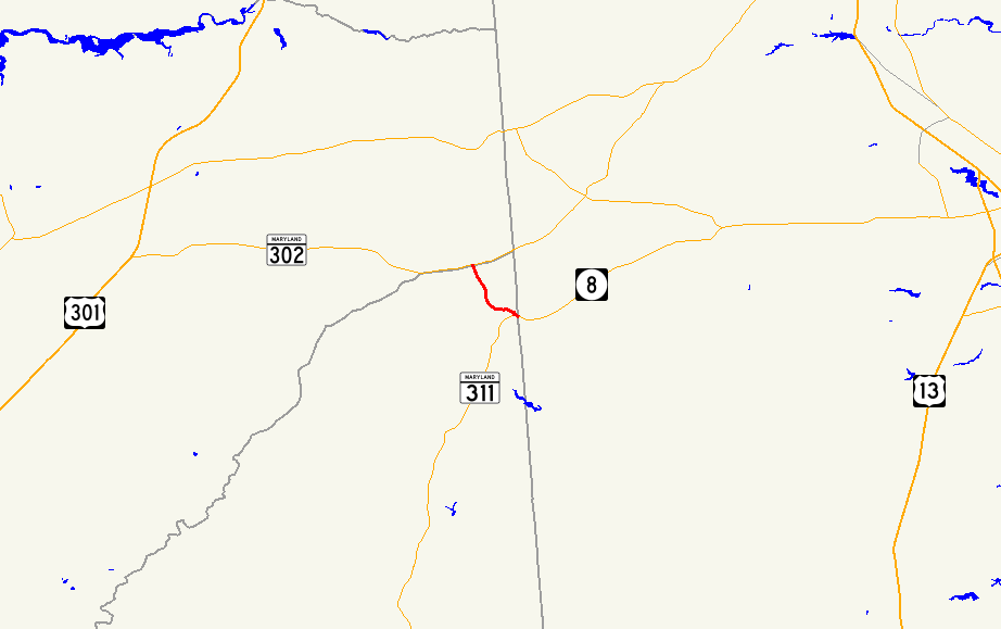 Map of Maryland Route 454